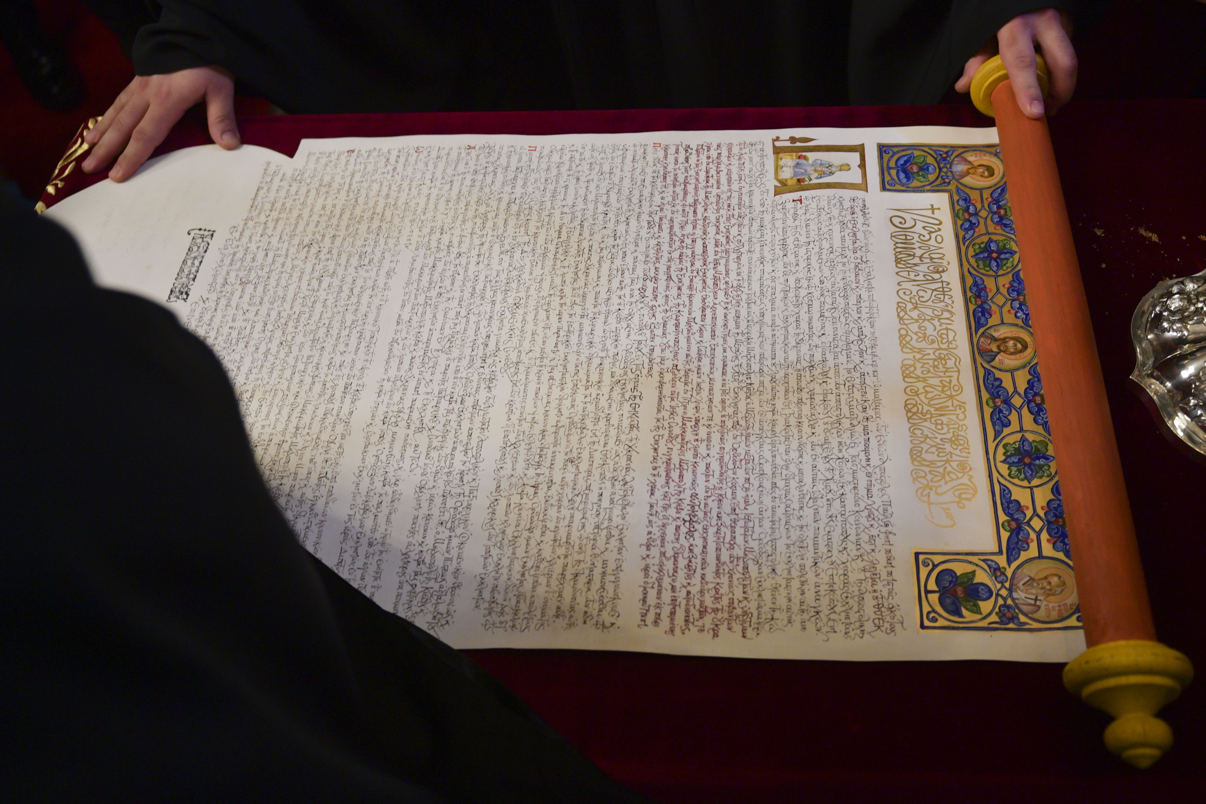 Working visit of the President of Ukraine Petro Poroshenko to the Turkish Republic (2019-01-05)